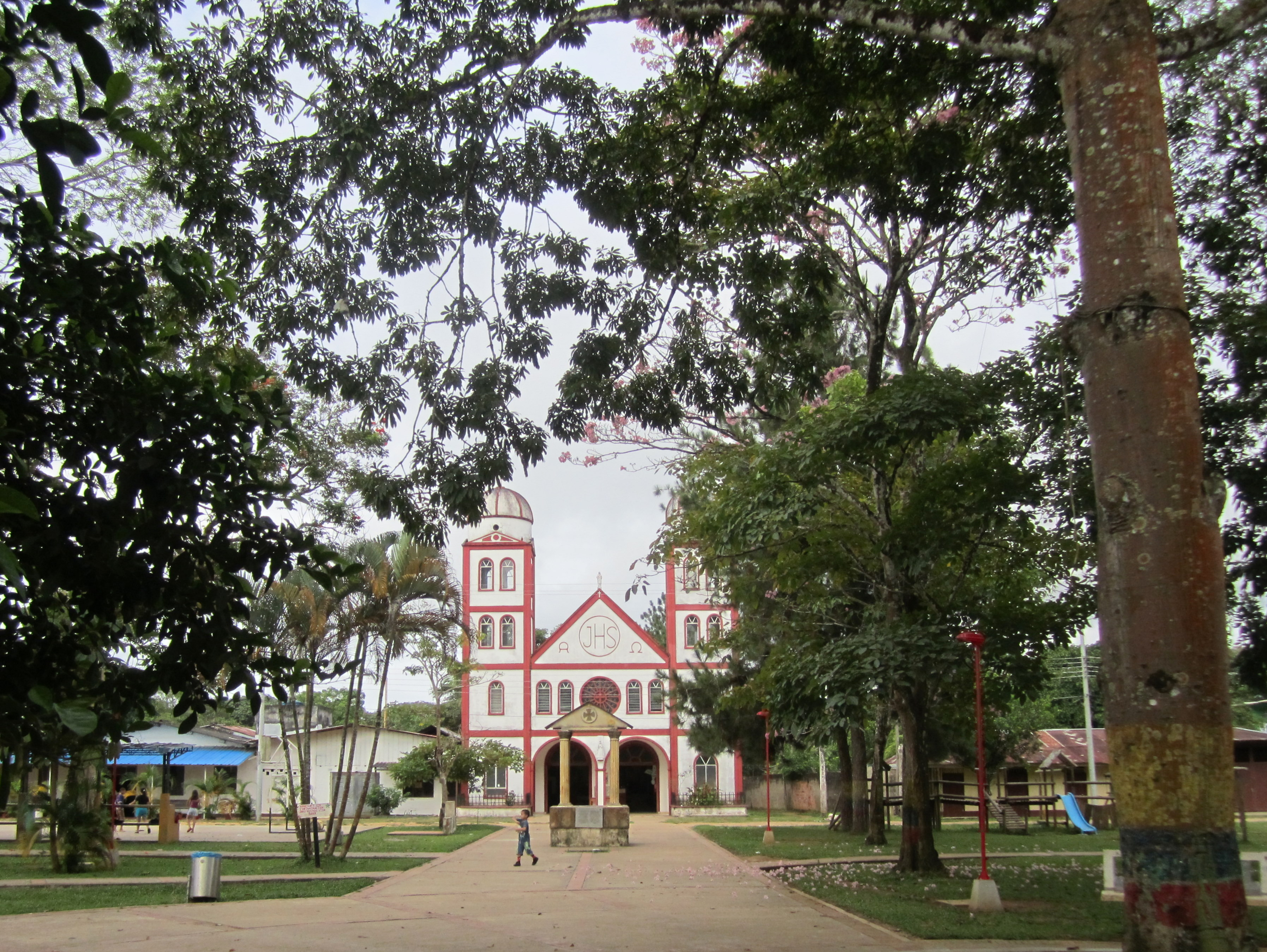 La Macarena. Church on the park, La Macarena.